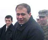 Ambassador Miles, Krtsanisi Commander Alex Kiknadze, Chief of General Staff Levan Nikoleishvili, and Deputy Minister of Defense David Sikharulidze break ground at the Krtsanisi Training Area.